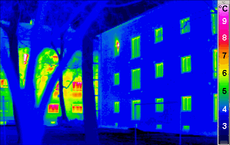 Thermogram of a Passivhaus building, with traditional building in background.